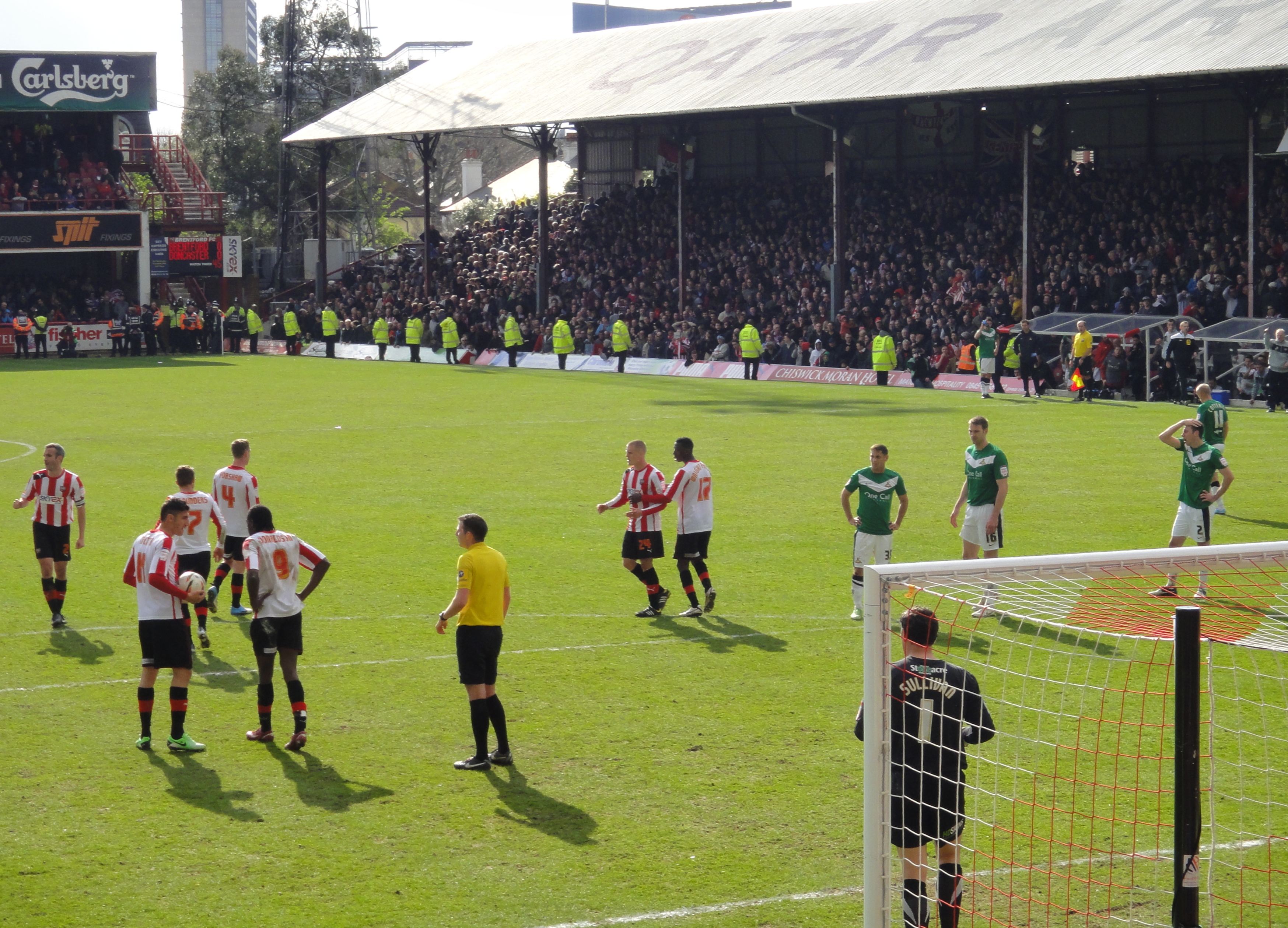 Brentford v Doncaster Rovers, Griffin Park, April 2013.